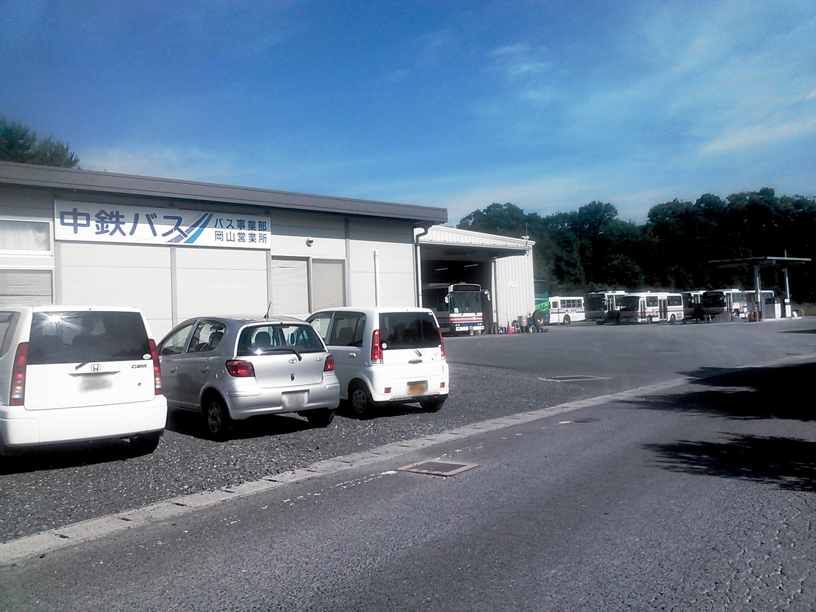 Chutetsu Bus Co.,Ltd Branch office at Haga,Kitaku,Okayama.